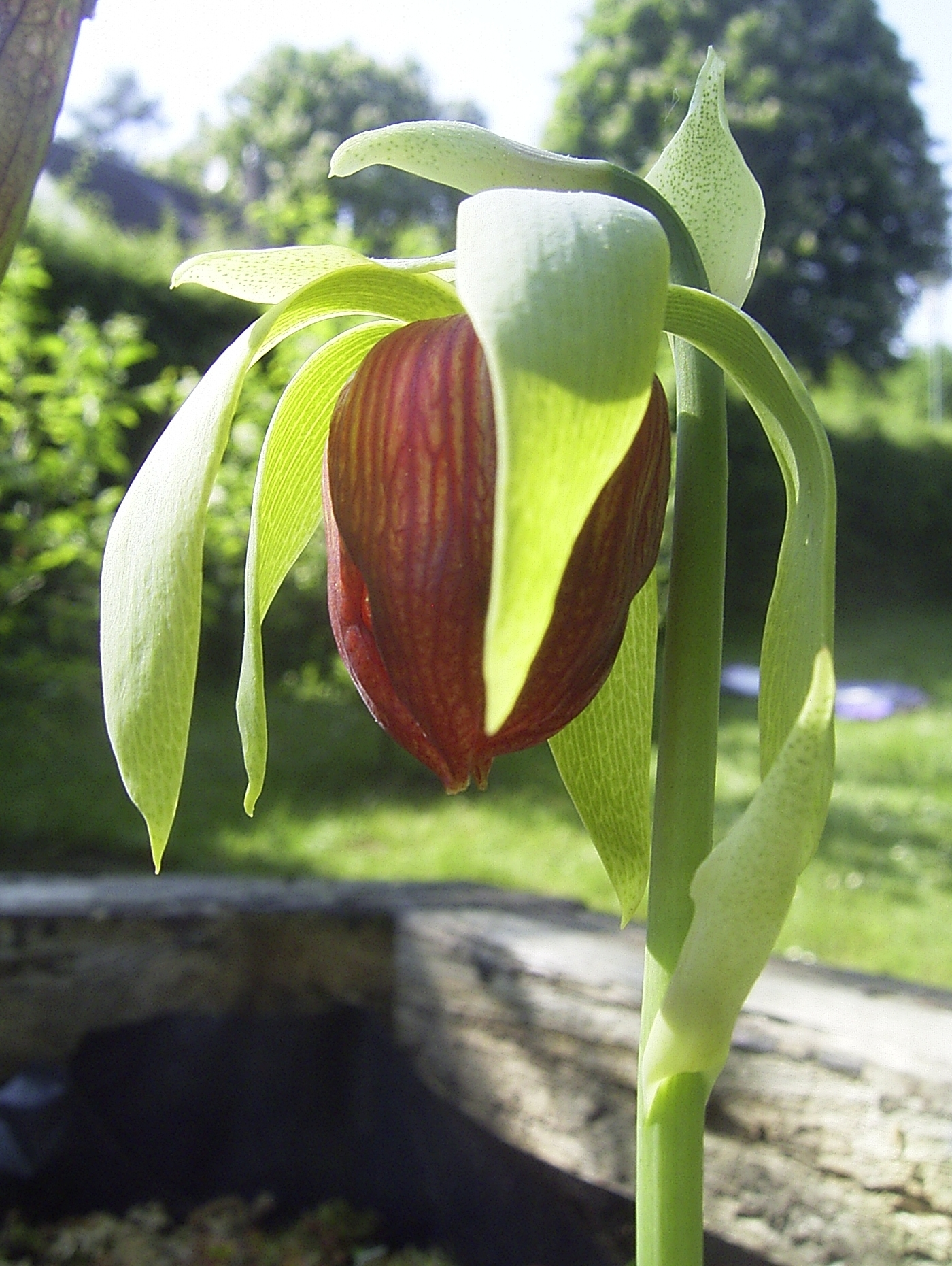 Darlingtonia californica — California pitcher plant.